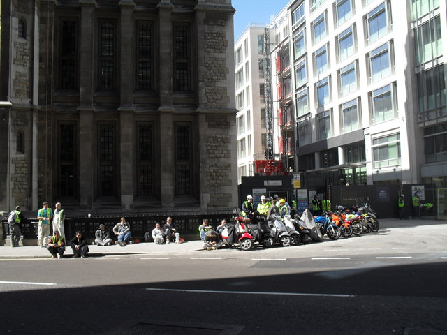 Junction of Fetter Lane and Rolls Buildings